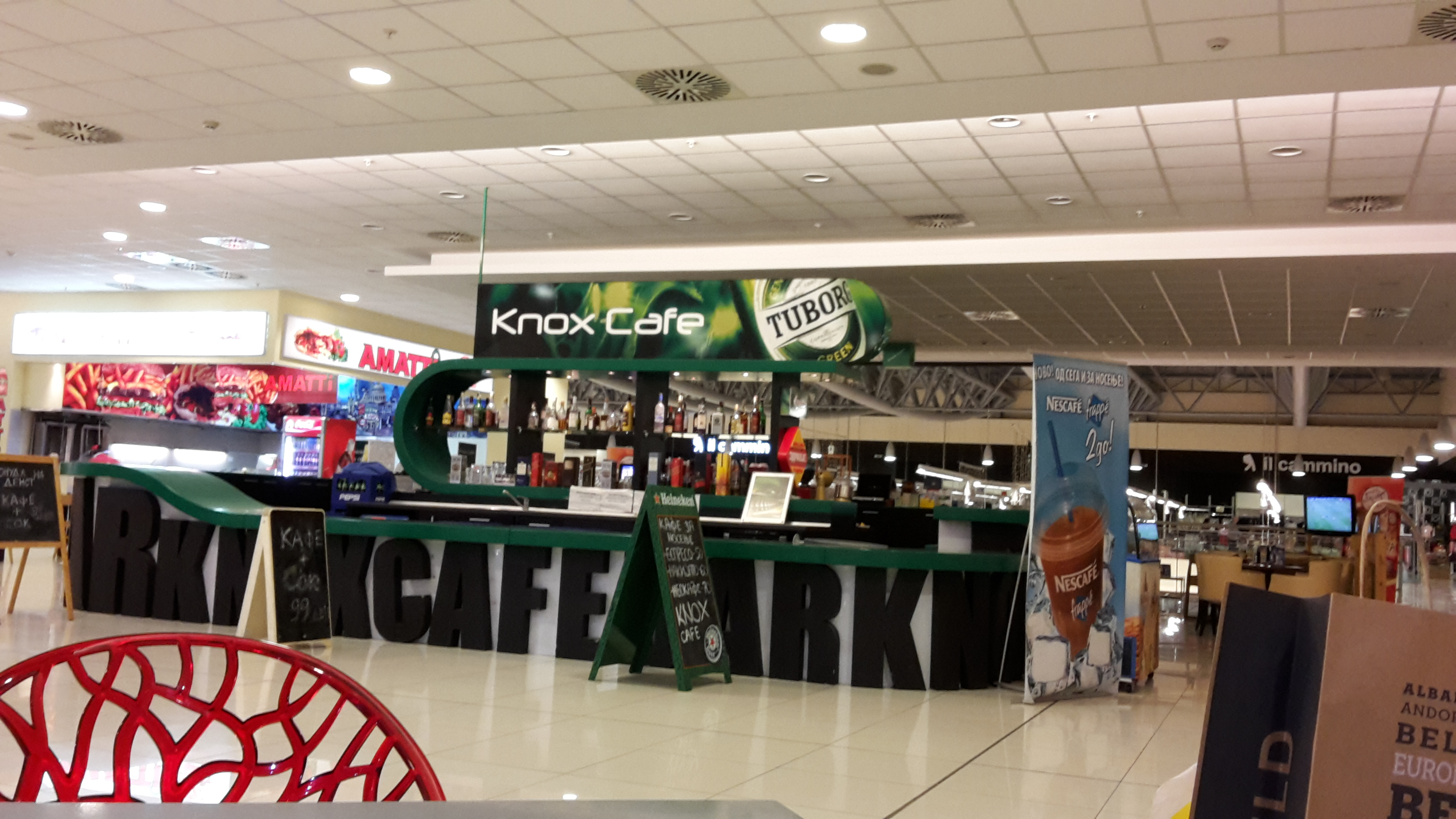 Mall in Skopje